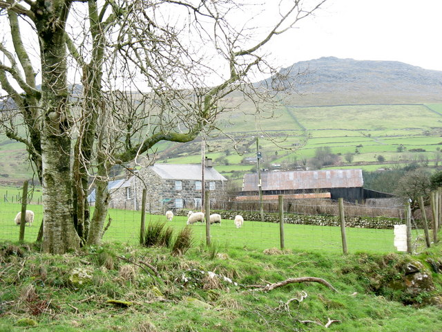 Ffermdy Maesog - a Catholic recusant house During the period of the Protestant Reformation, the Clynnog area remained a Catholic stronghold. The area produced a canonised saint - St John Jones a Benedictine monk ,whose brother William also became the head of the order, the first head of the English College in Rome - Morys Clynnog and a number of priests including Fr Morgan Clynnog. The Maesog family remained staunchly Catholic and the house served as a Mass-centre for local recusants.